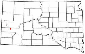 Locator map of Rapid City — in South Dakota.